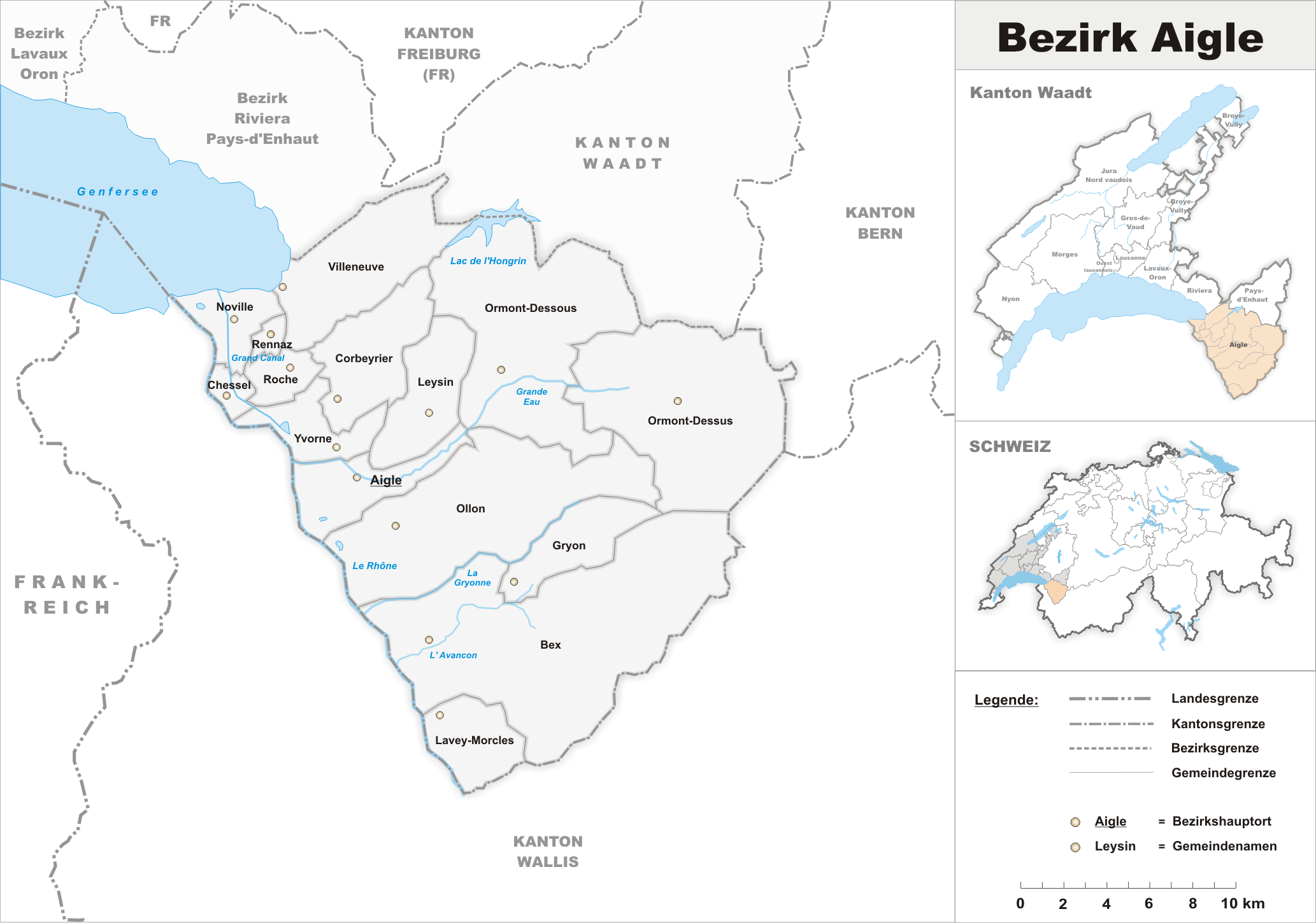 Municipalities in the district of Aigle to 2008